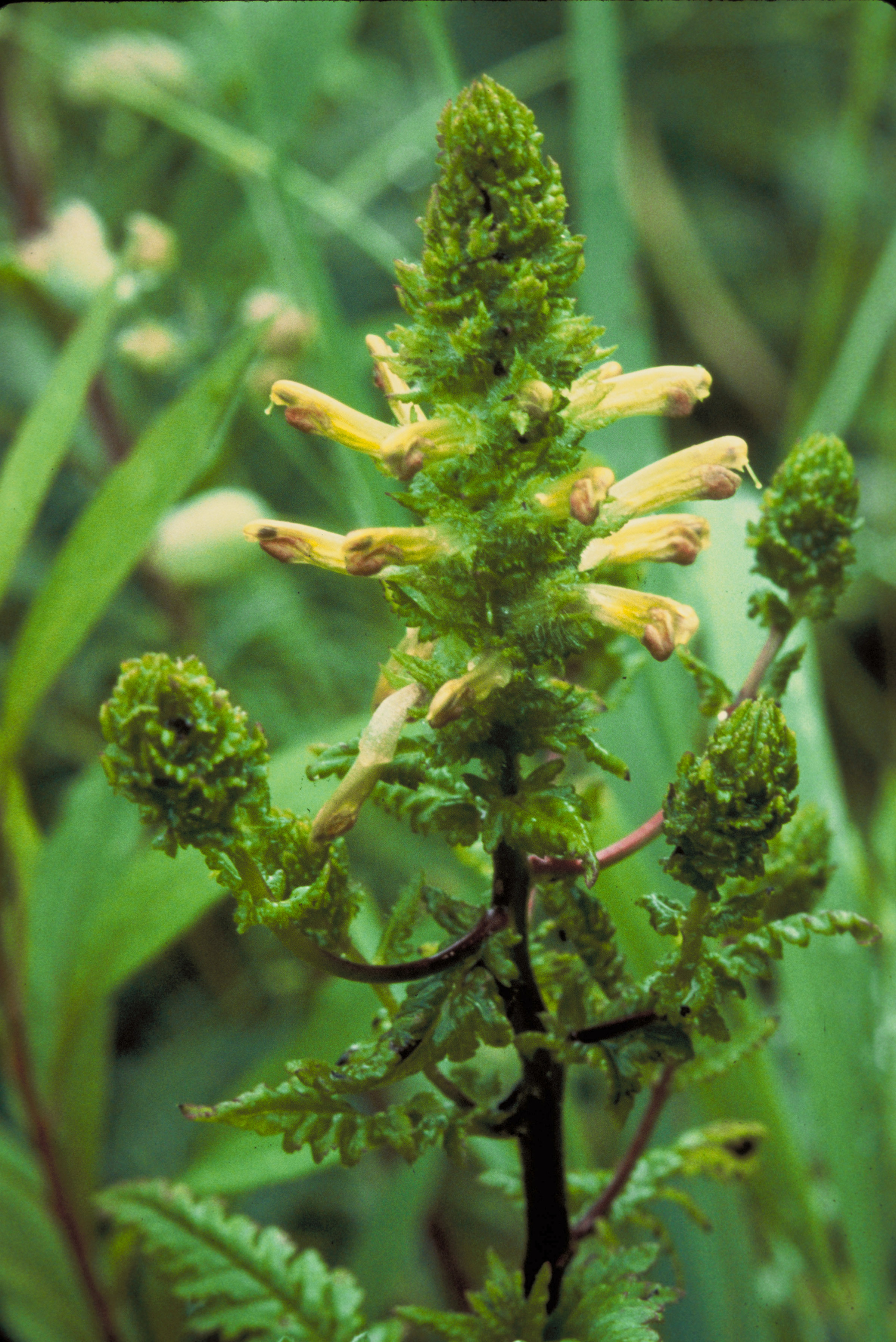 Image of Pedicularis furbishiae